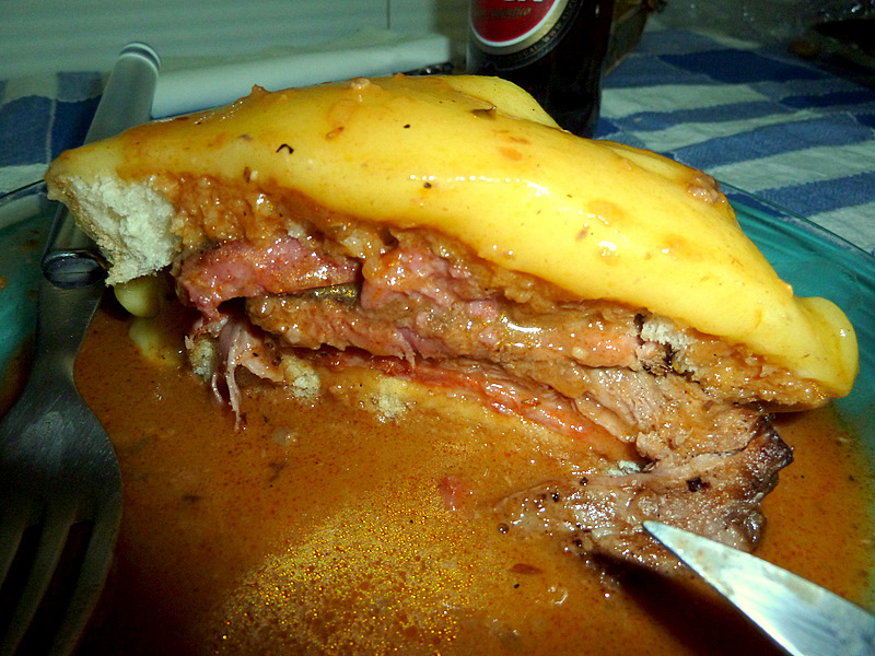 Typical dish from the city of Porto.